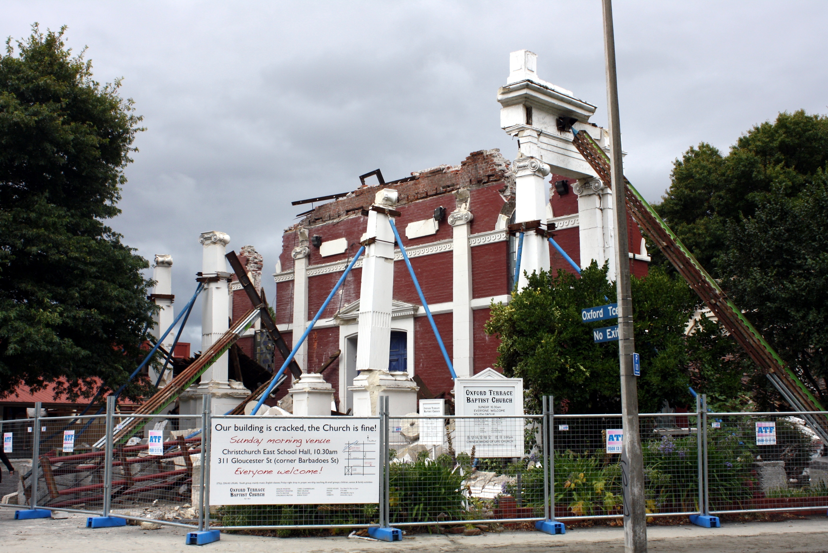 Photo from a different angle, taken on 25 February 2011.